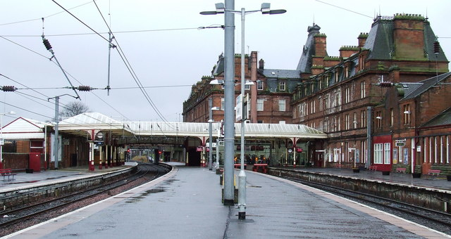 Ayr railway station from the island platform.